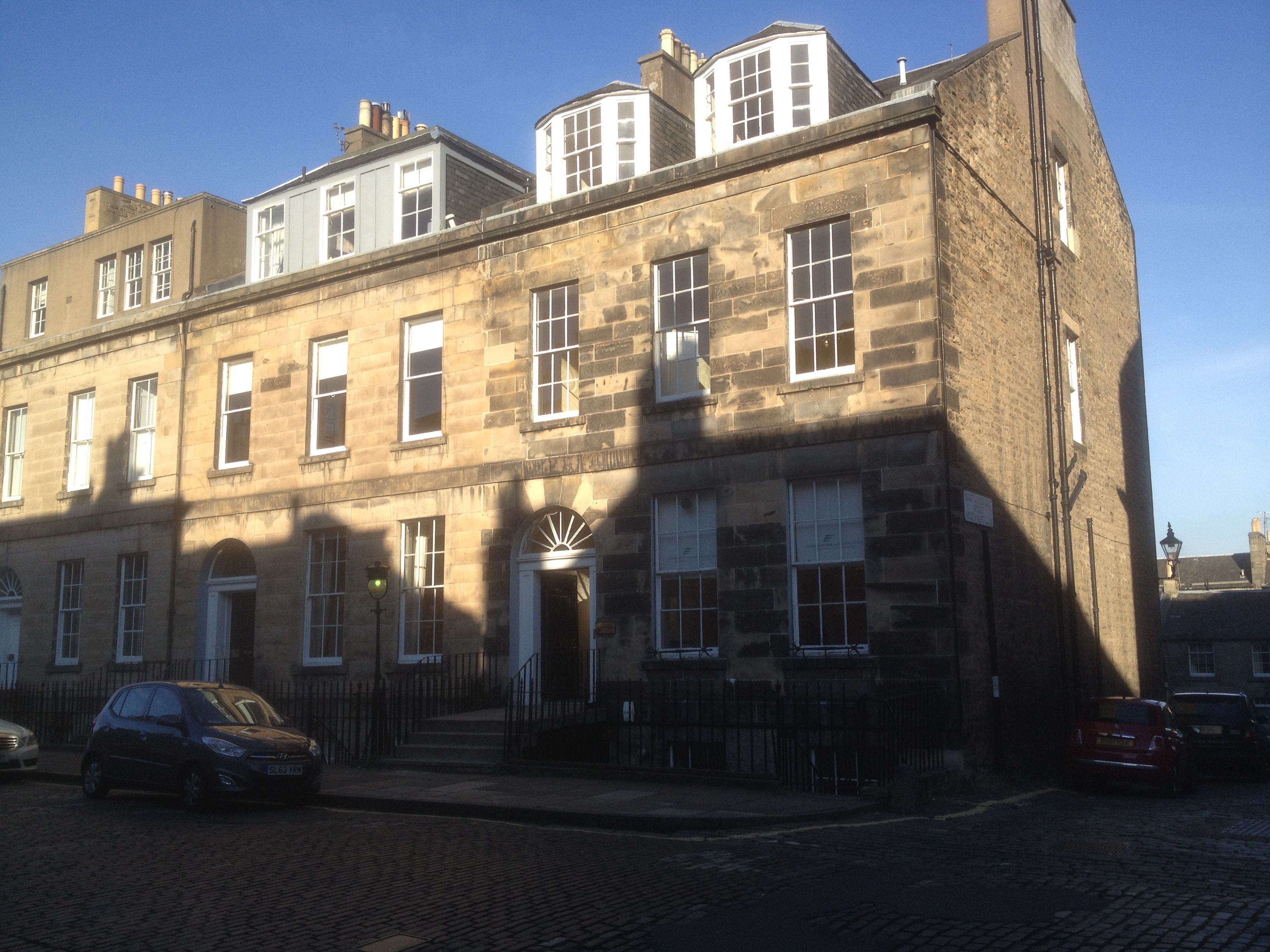 Northumberland Street 43-47, Edinburgh